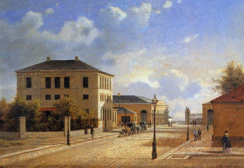 The HQ of the shipping company C.K. Hansen, Toldbodvej 5 (now Esplanaden 15), built 1856 to a design by G.F. Hetsch. Listed. The brick facades have later been painted white.